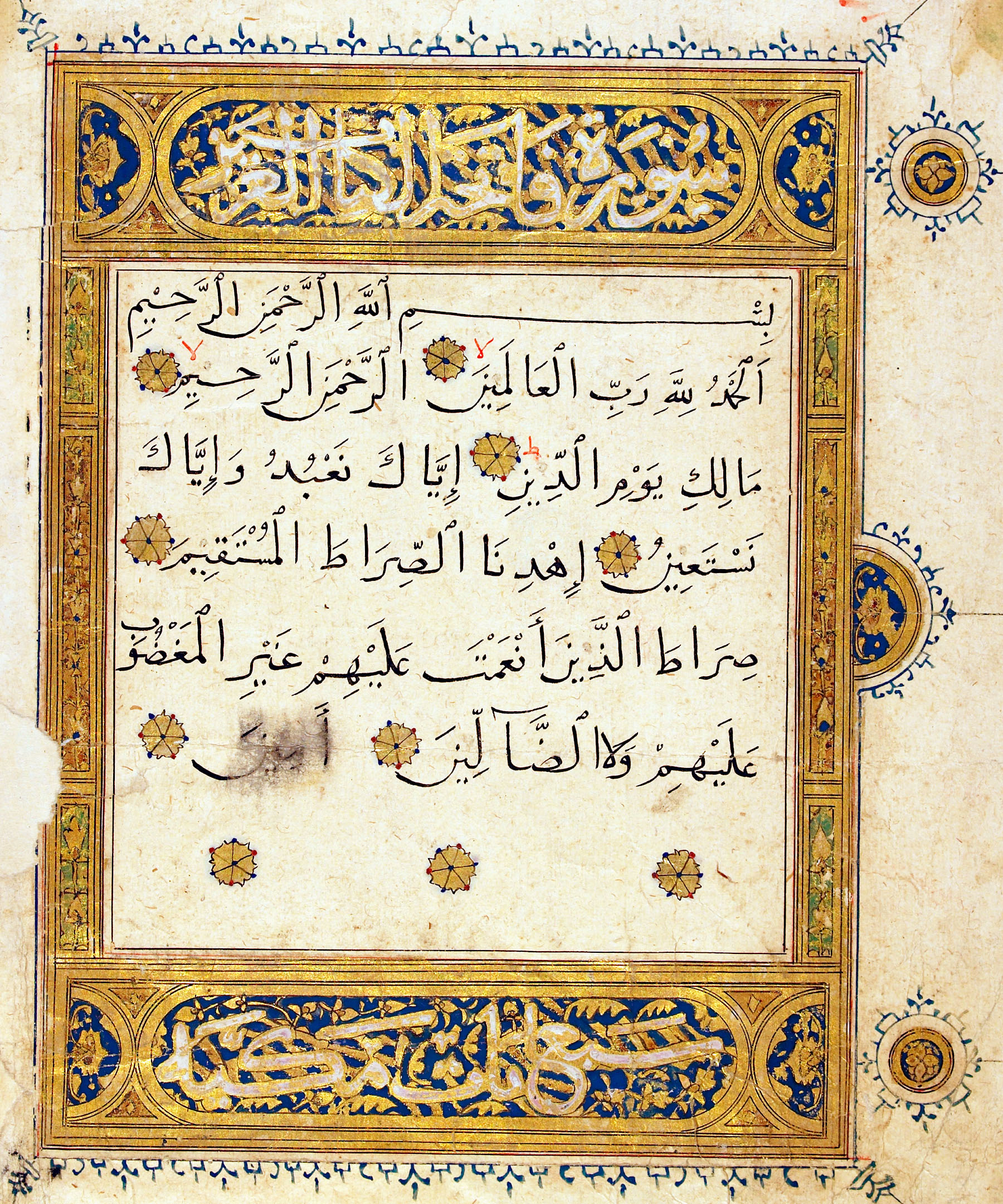 Dimensions of Written Surface: 15.4 (w) x 15.5 (h) cm Script: naskh from Library of Congress This Qur'anic fragment contains the first chapter of the Qur'an entitled al-Fatihah (The Opening). Recited at the very beginning of the Qur'an, this surah proclaims God as Gracious and Merciful, the Master of the Day of Judgment, and the Leader of the straight path. The illuminated upper and lower panels contain a text, outlined in gold ink to let the plain folio show through, stating that this surah is the opening of the Holy Book (Fatihat al-Kitab al-'Aziz) and contains seven ayahs revealed in Mecca. These illuminated cartouches contain gold vine and flower motifs interlacing on a blue background. In the right margin appear two gold and blue decorative roundels and one semi-roundel in the center. The text itself is written in the cursive script called naskh, and each verse is separated by an ayah marker consisting of a gold six-petalled rosette with blue and red dots on its perimeter. Both the script and the illumination are typical of Qur'ans produced in Mamluk Egypt during the 14th and 15th centuries. Above the first two ayah markers on the first line of text immediately after the initiatory bismillah appears the word la ("no") in red ink, indicating that the reciter must not stop at the places indicated. Finally, this fragment is particular in several ways: there are four extra verse markers at the very end of the surah, a mistake that has been rectified partially by the addition of the exclamatory, terminal praise amin ("Amen") between the last correct verse marker and the first additional marker. The spaces between the last three verse markers on the lowermost line remain empty. (colors have been auto-balanced and image resized for print purposes)